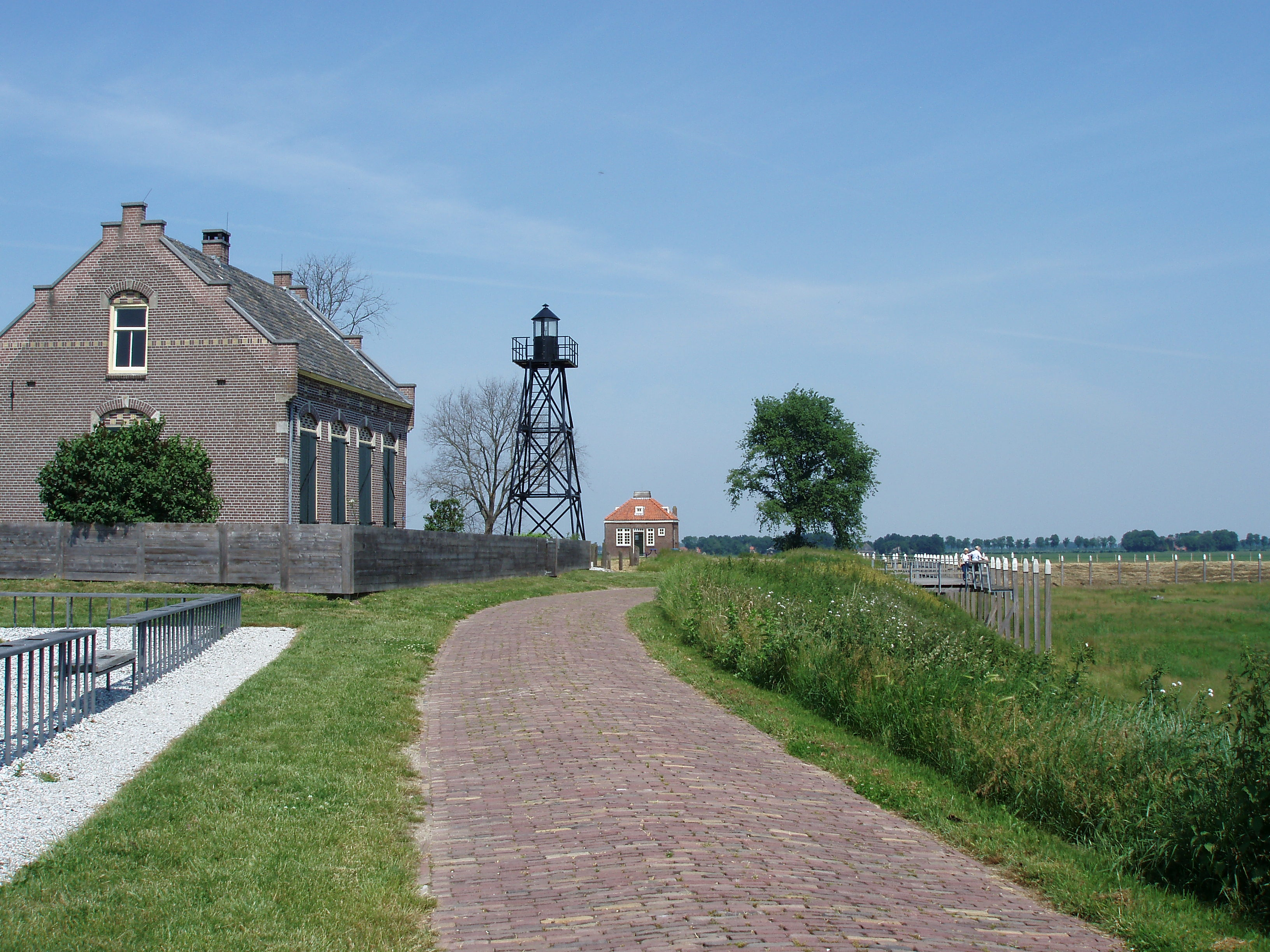 Schokland harbour